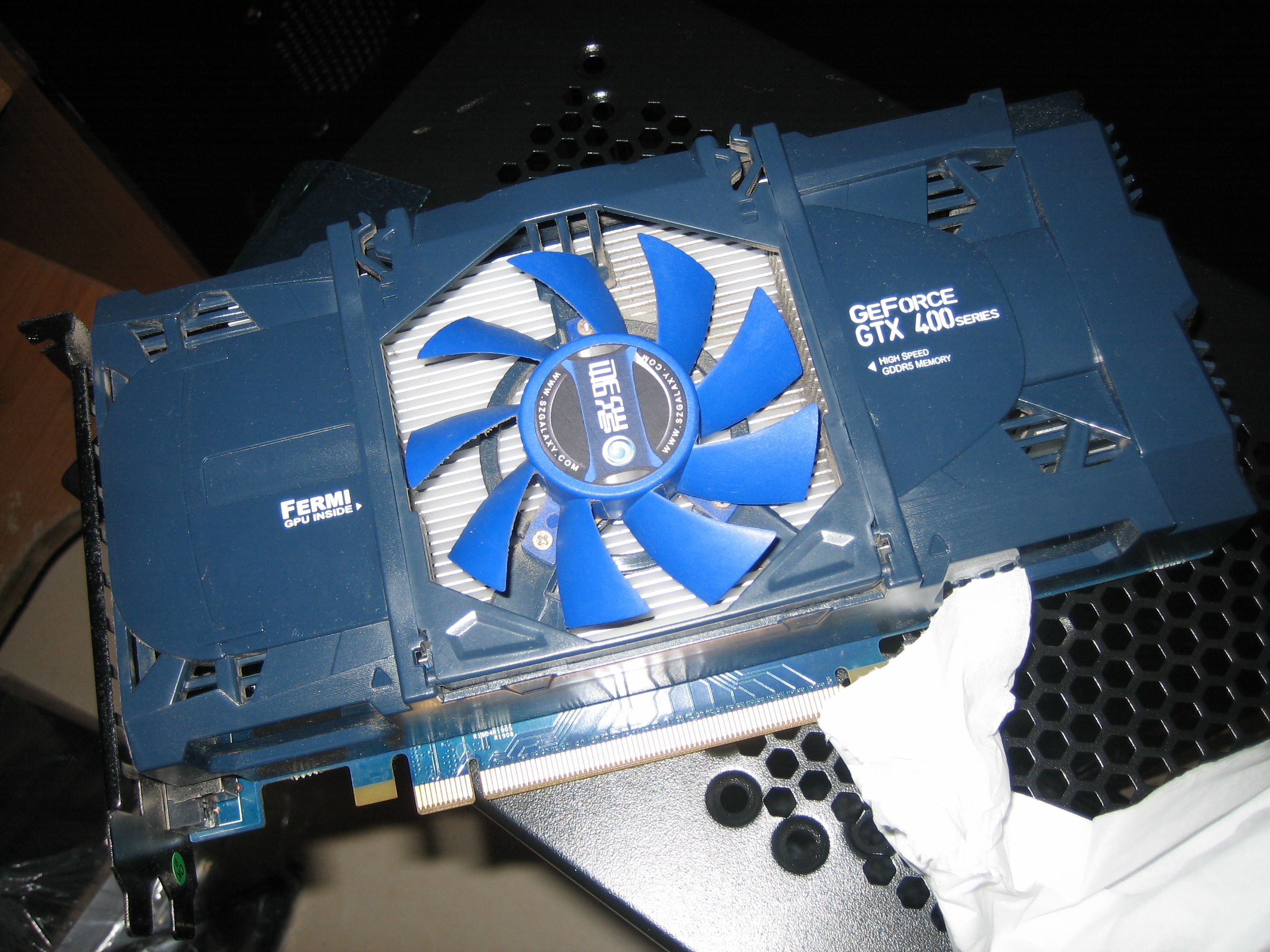 Galaxy NVIDIA GeForce GTX 460.